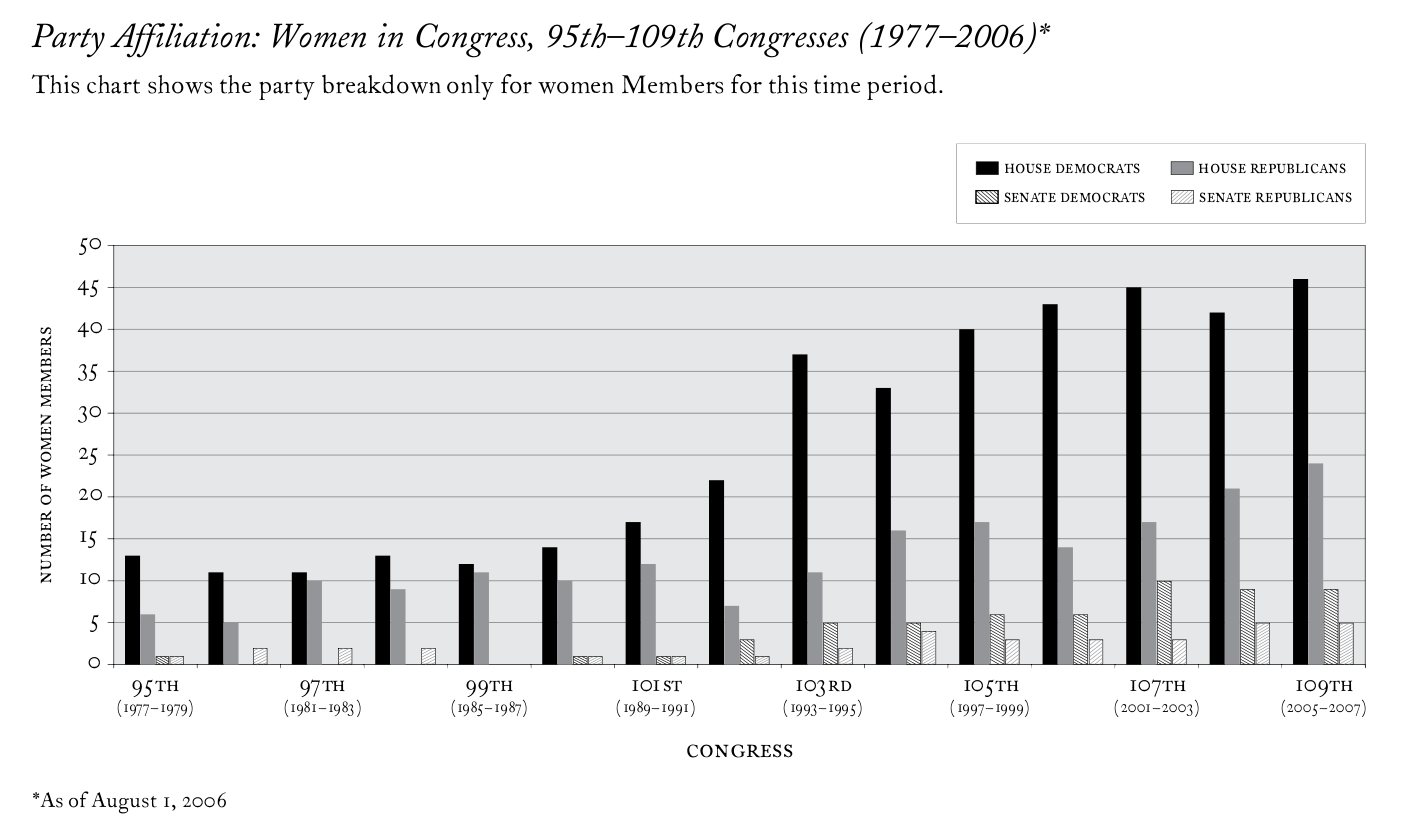 This is a chart illustrating the number of women in the U.S. Congress (both the House and Senate) from 1977-2006.